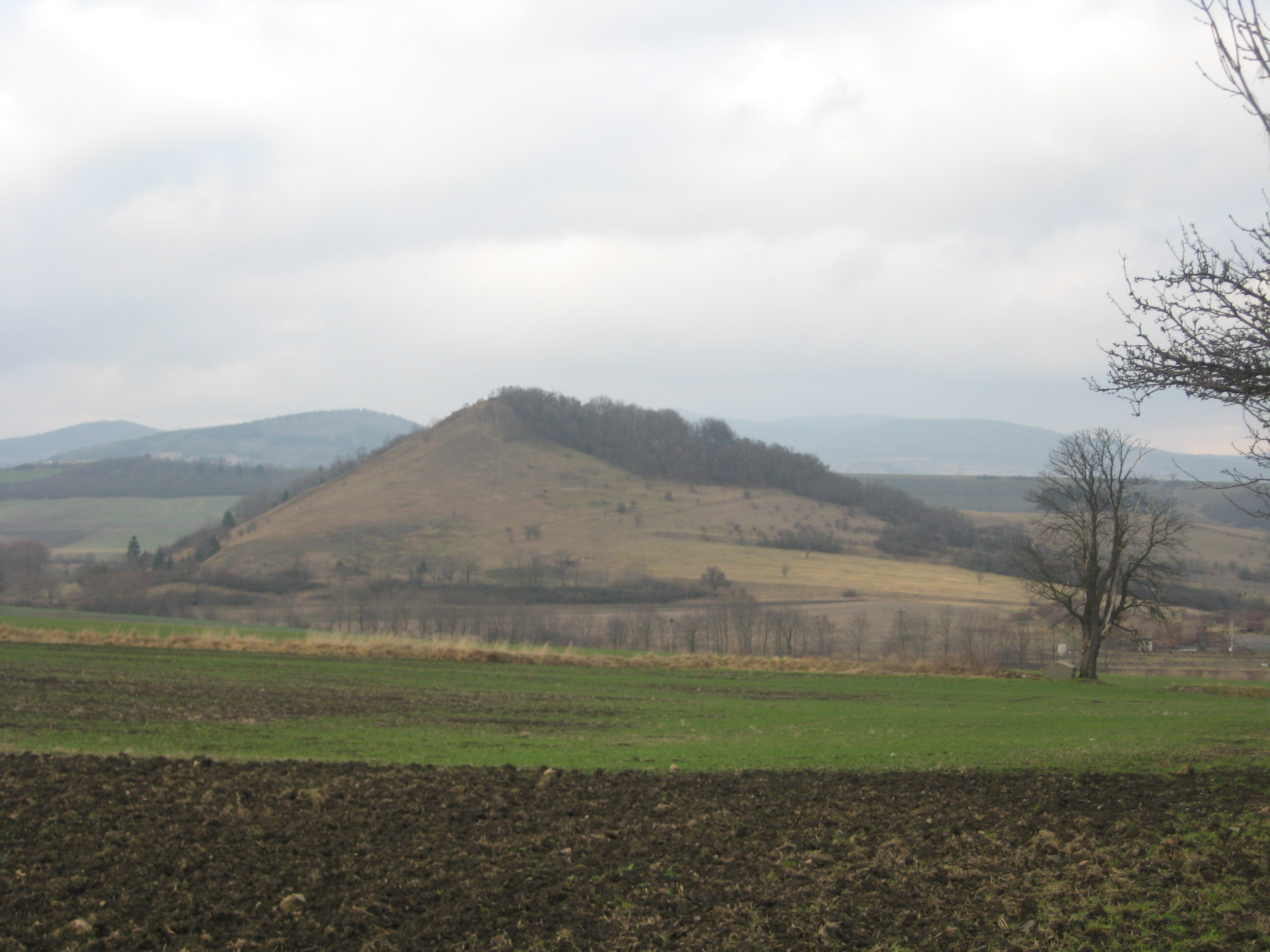 Syslík hill by Třtěno